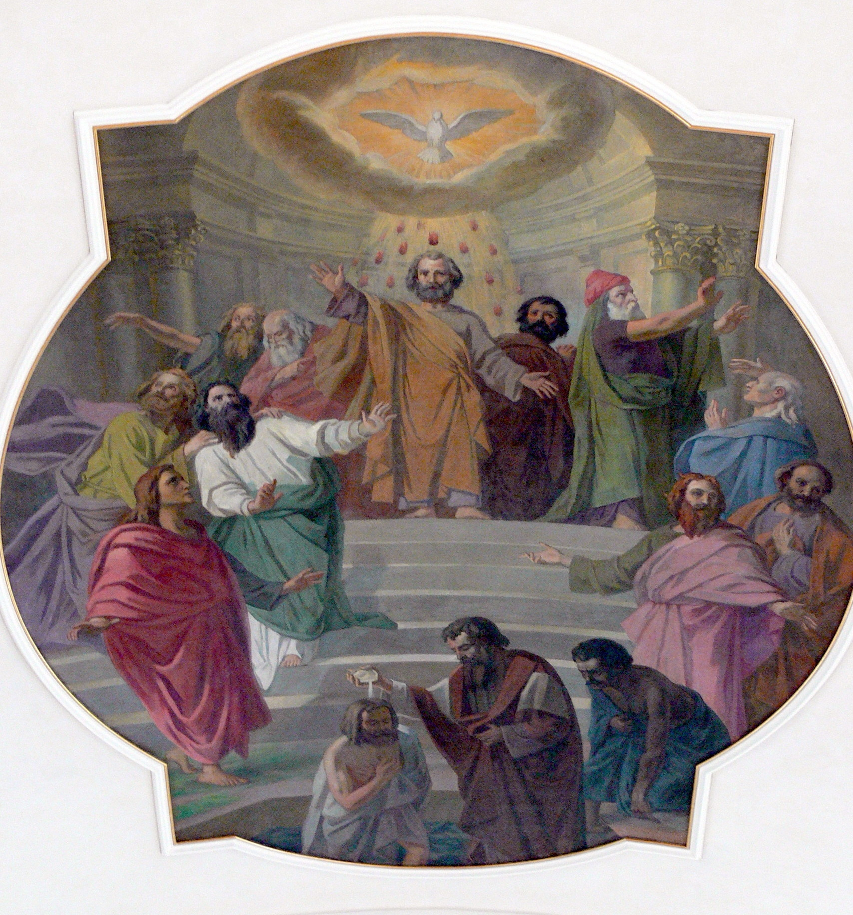 Bezau ( Vorarlberg ). Saint Jodok parish church: Fresco ( 1925 ) showing pentecost by Ludwig Glötzle.